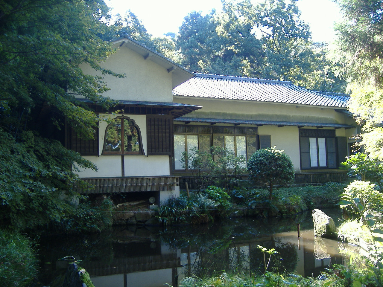 Kuraki Noh stage (Yokohama, Japan)